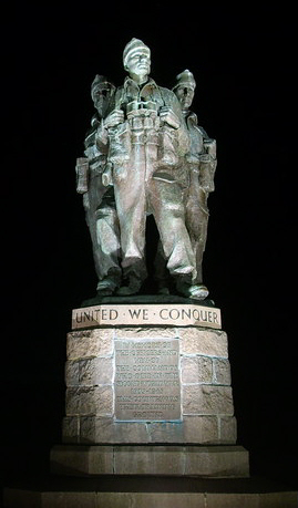 The Commando Memorial at night.